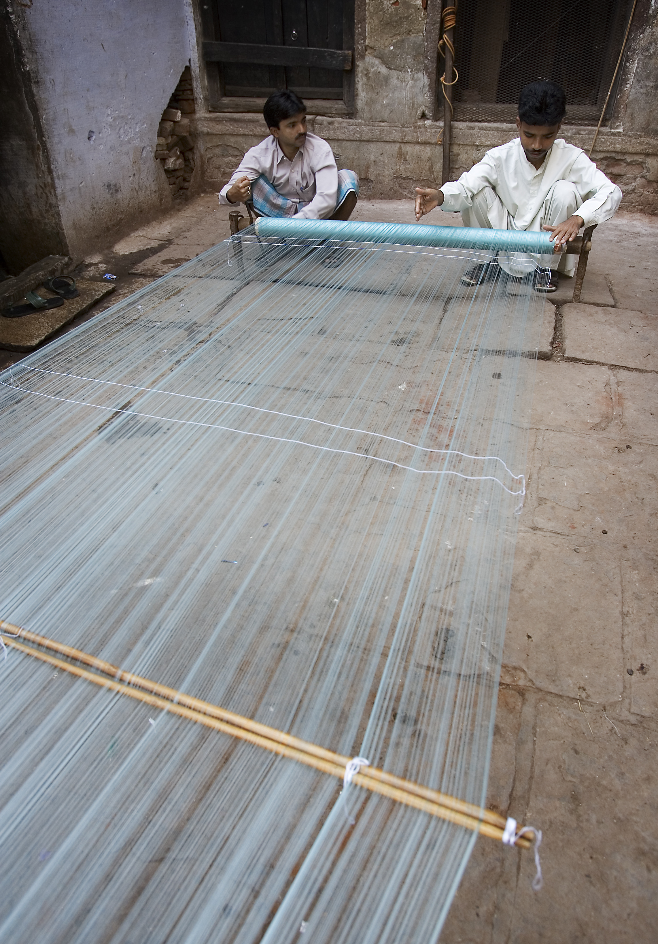 Setting a roll of fabric on the street Varanasi Benares India